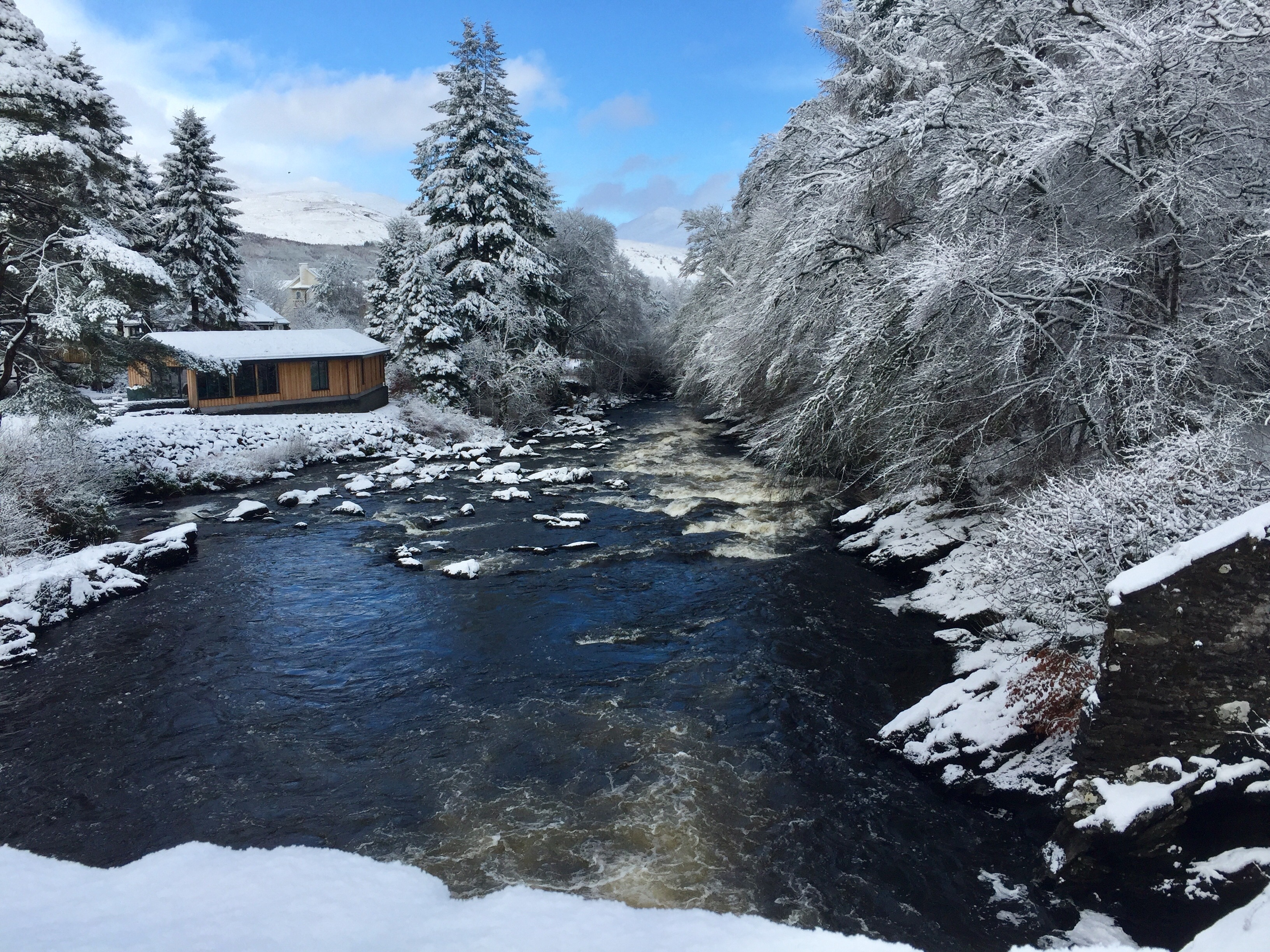 A view downstream from the Bridge over the Falls of Dochart in winter